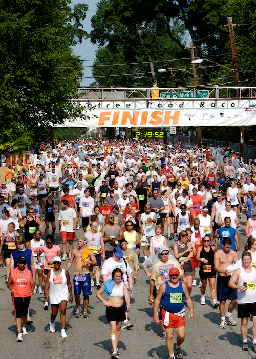 Finish line of the 2006 Peachtree Road Race, among the world's largest 10K runs, with 55,000 runners[1]